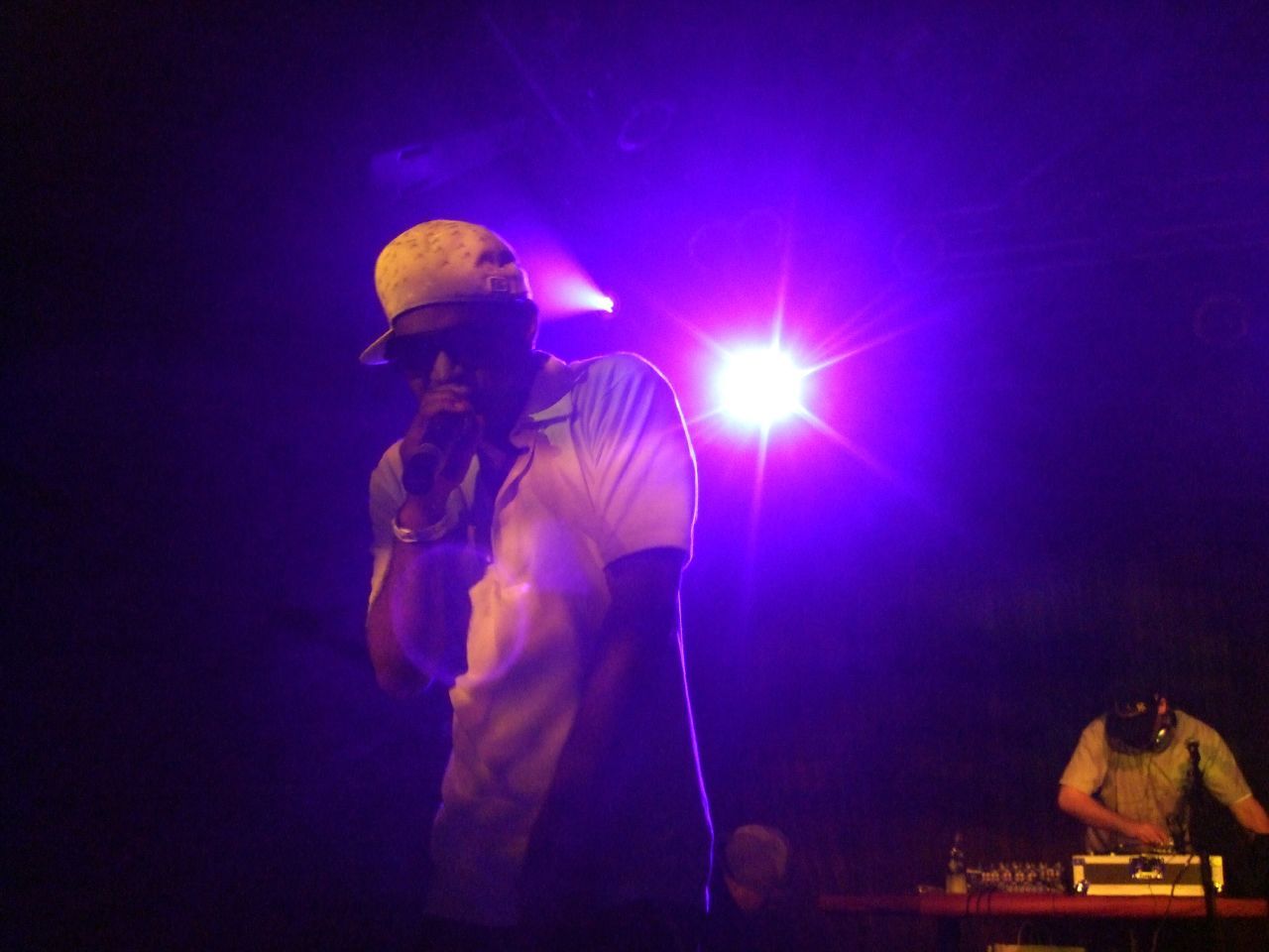 American rap group Spank Rock in New York in 2007.